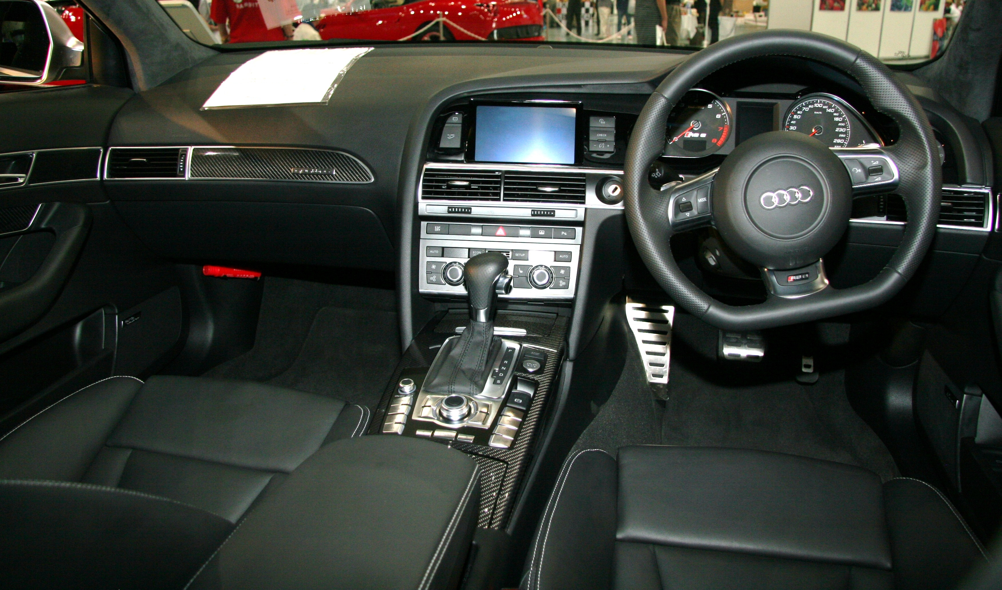 Audi RS6